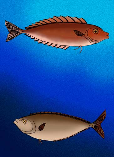 Reconstructions of the prehistoric luvars, Avitoluvarus dianae (top) and A. mariannae (bottom), from the Early Eocene of Turkmenistan.